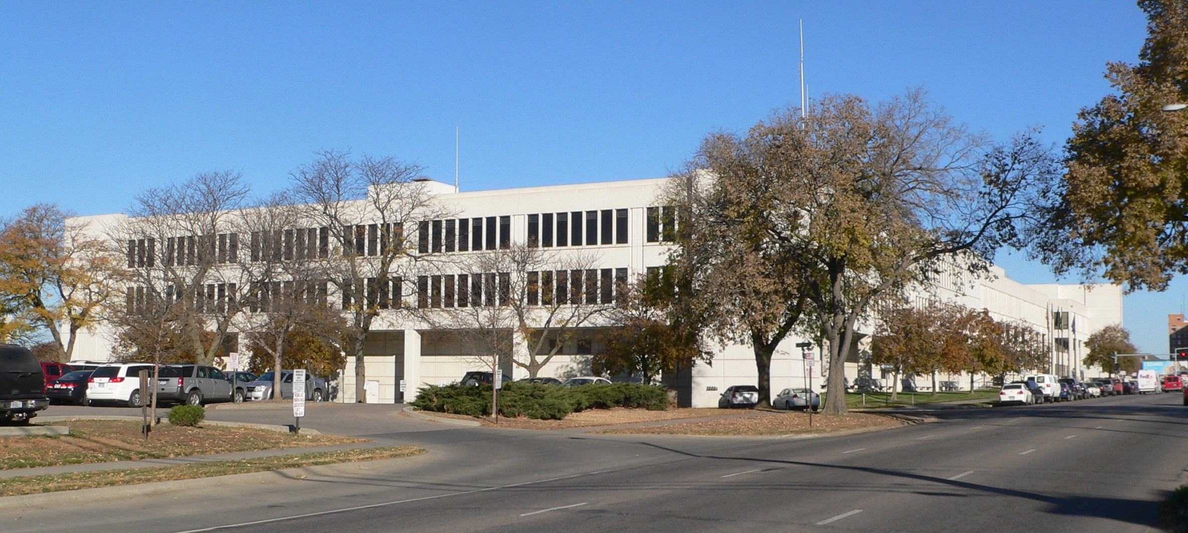 Lancaster County Courthouse in Lincoln, Nebraska; seen from the southeast.